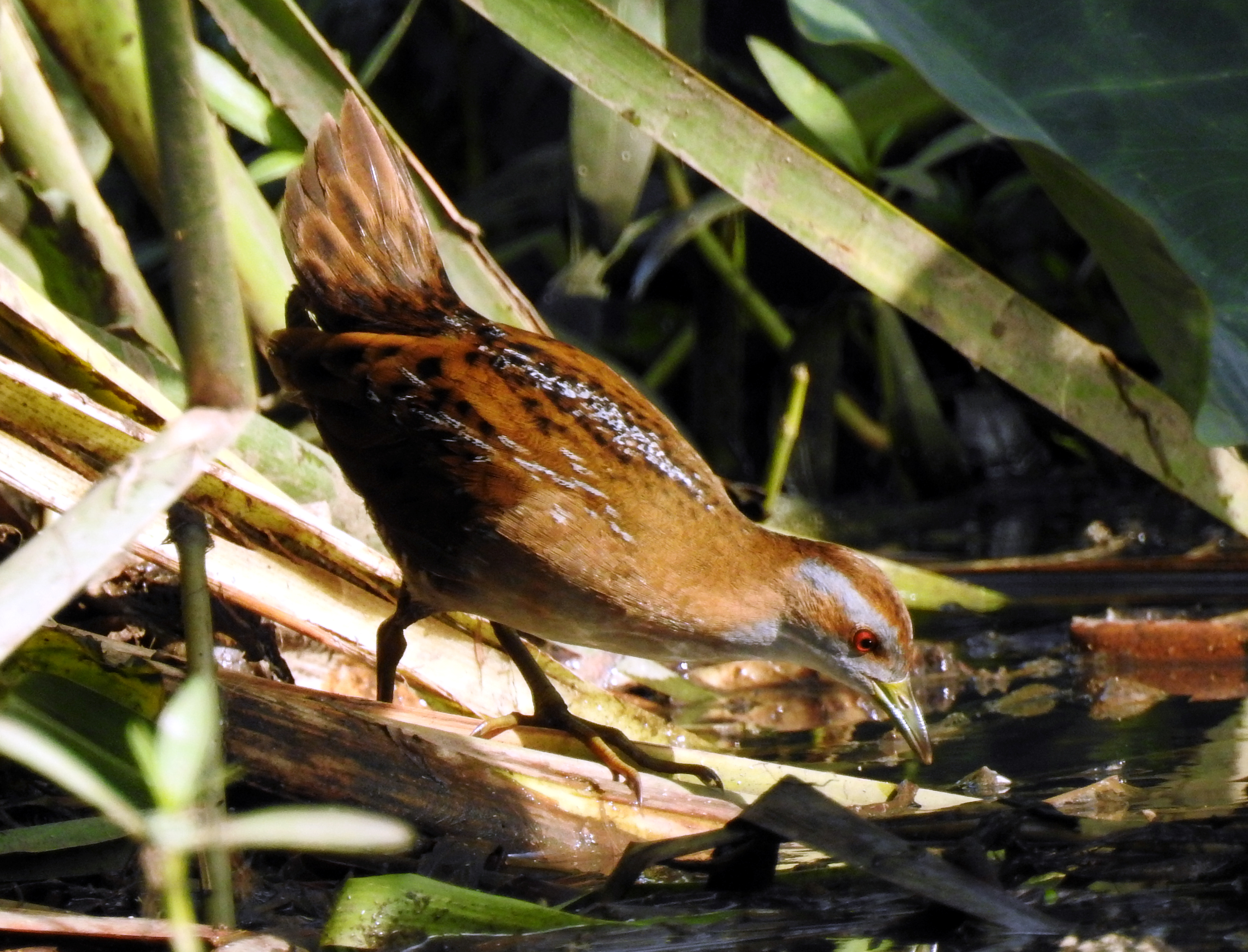 Baillon's Crake Porzana pusilla. Photo taken by Dr. Raju Kasambe near Dombivli, dist. Thane, Maharashtra, India